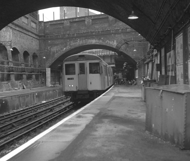 Whitechapel station, Low Level This is the gloomy but atmospheric East London line station, well off the London tourist circuit! An A60 train (these were built for the leafy outer-suburban Metropolitan Line!) waits with a service for New Cross Gate. On its journey it will pass through Marc Brunel's Thames Tunnel - the first tunnel under the Thames in London, and the first submarine tunnel in the world).